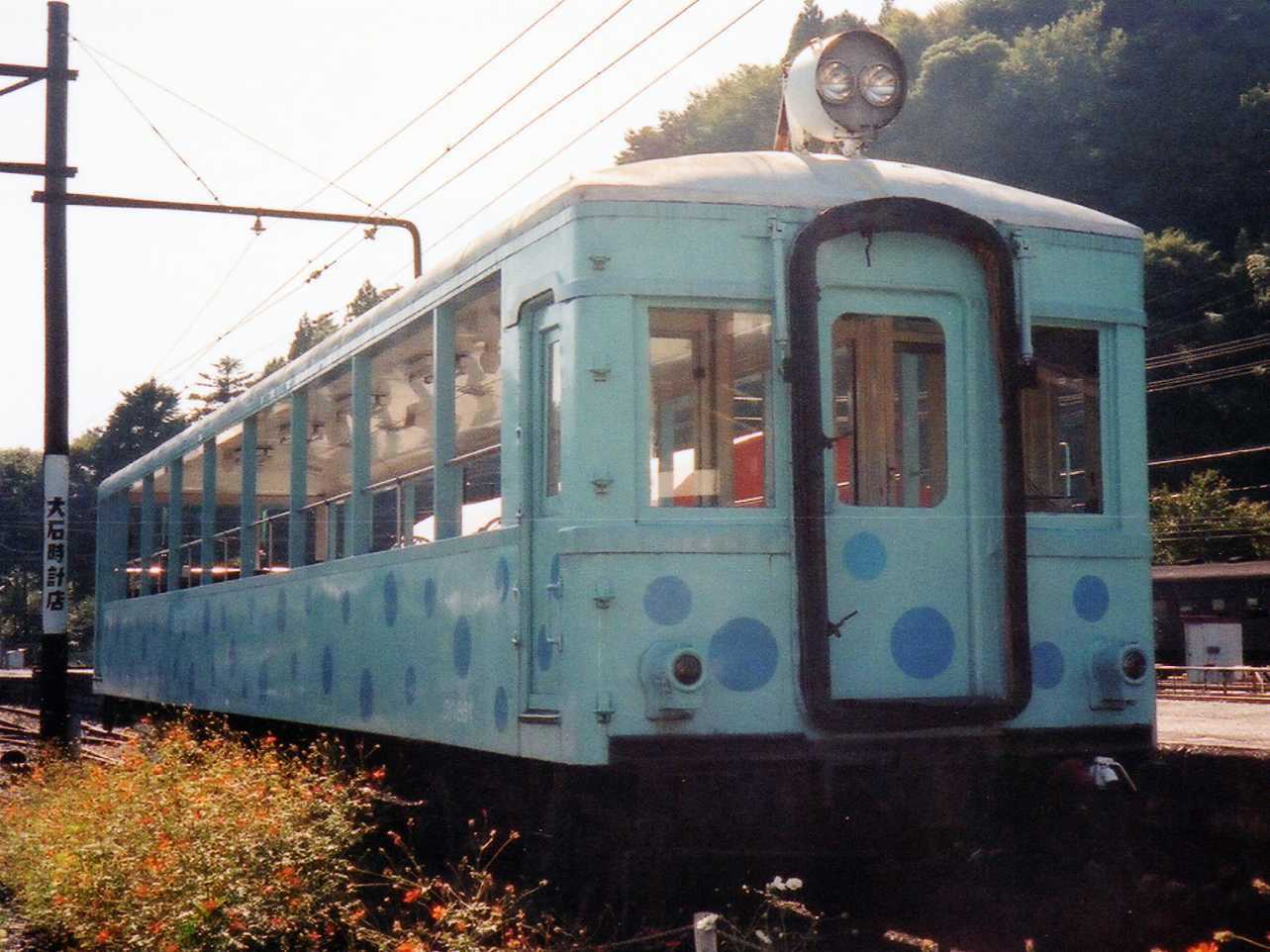 Oigawa Railway type Kuha861. at Senzu Sta. 1993.10.10 Photo by Cassiopeia_sweet.